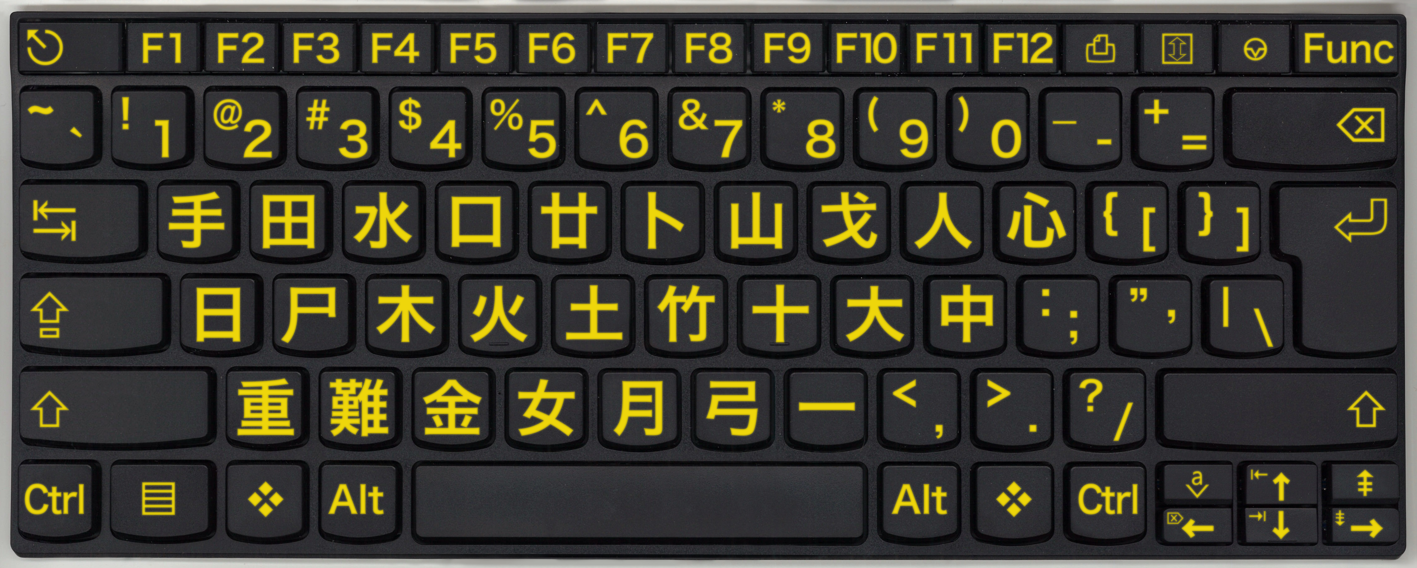 Computer keyboard in black with yellow Cangjie radicals